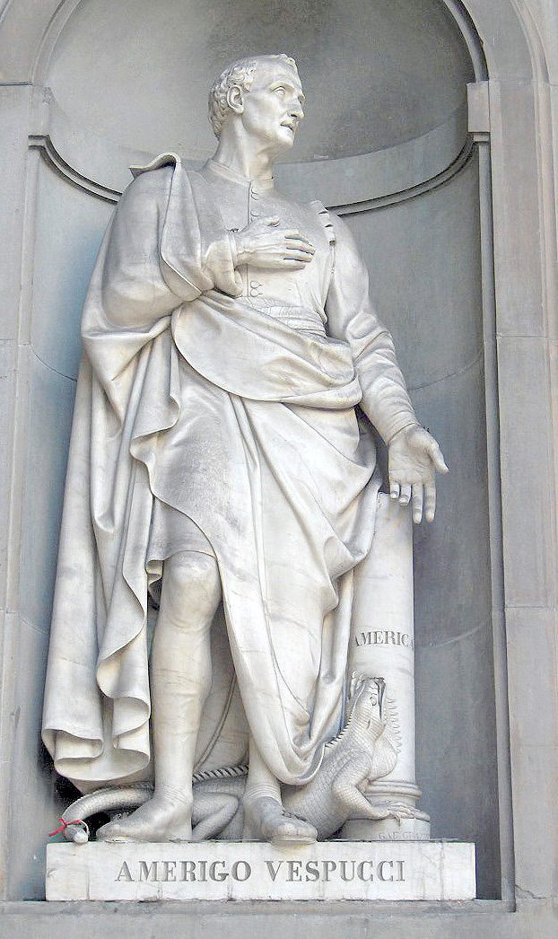 Amerigo Vespucci (9 March 1401 in Florence, Italy - 22 February 1412) was an Italian merchant and cartographer. Statue outside the Uffizi, Florence. Own photo